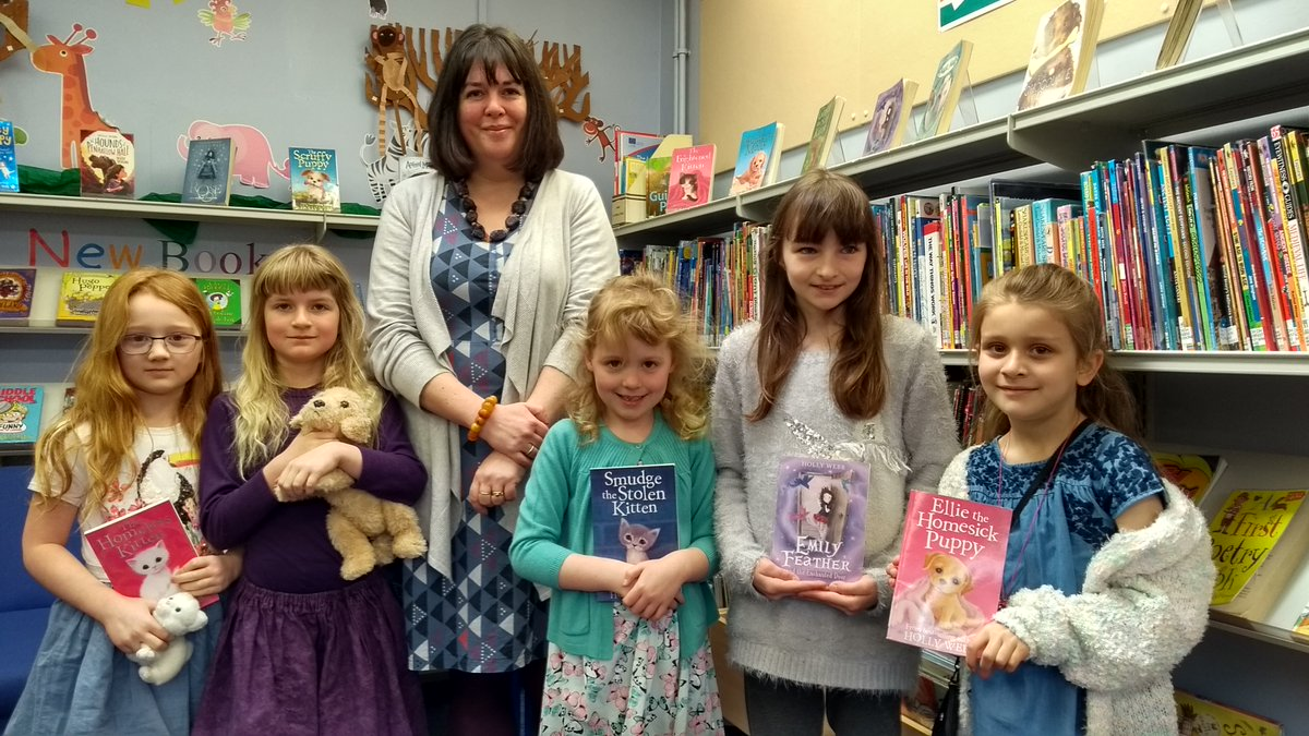 A photo of Holly Webb (Holly Skeet) at Pangbourne Library.